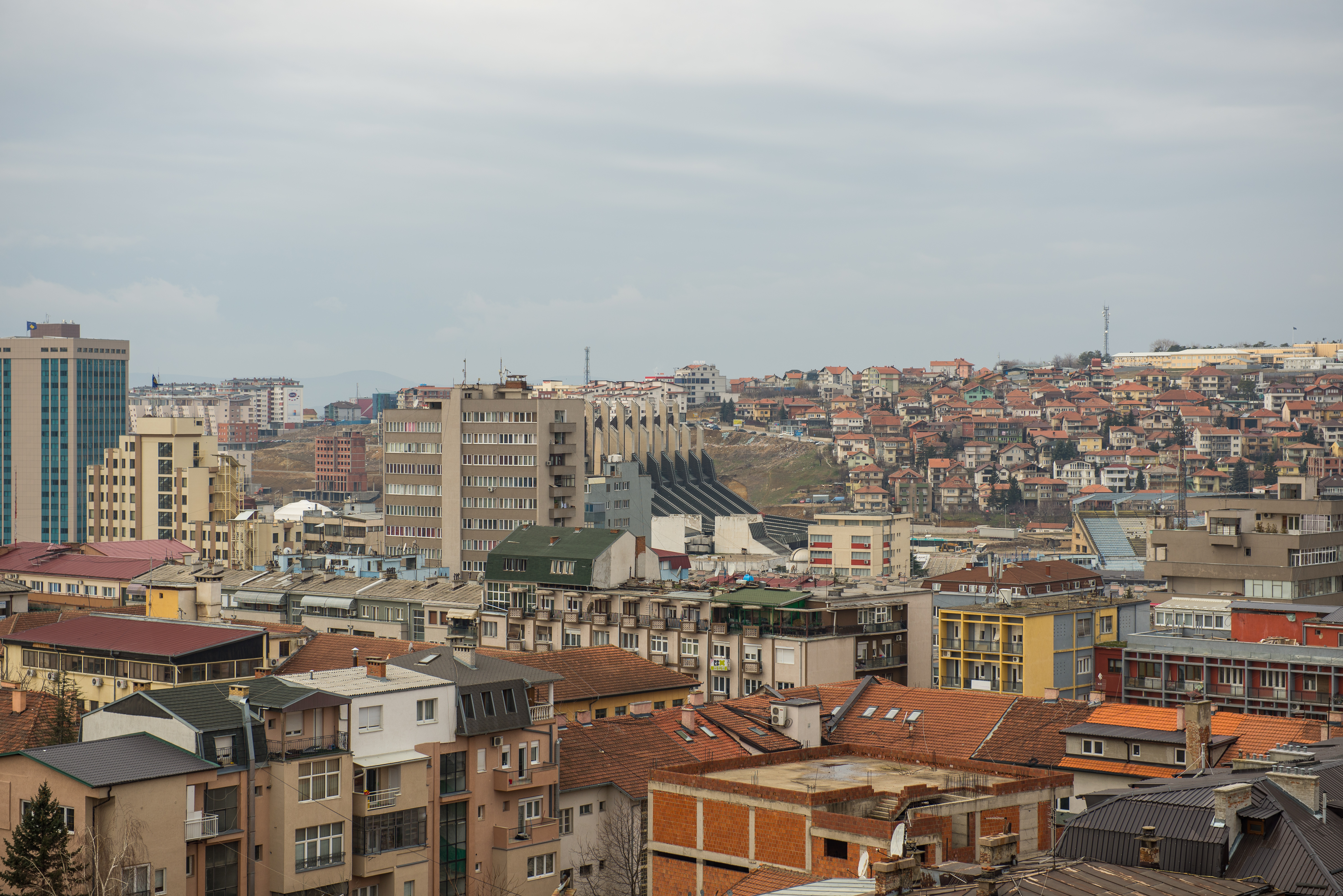 View of central Pristina from Hotel Sirius.